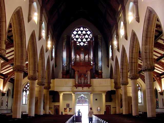 Christ Church Cathedral is an Anglican cathedral in Montreal, Quebec, Canada, the seat of the Anglican Diocese of Montreal.